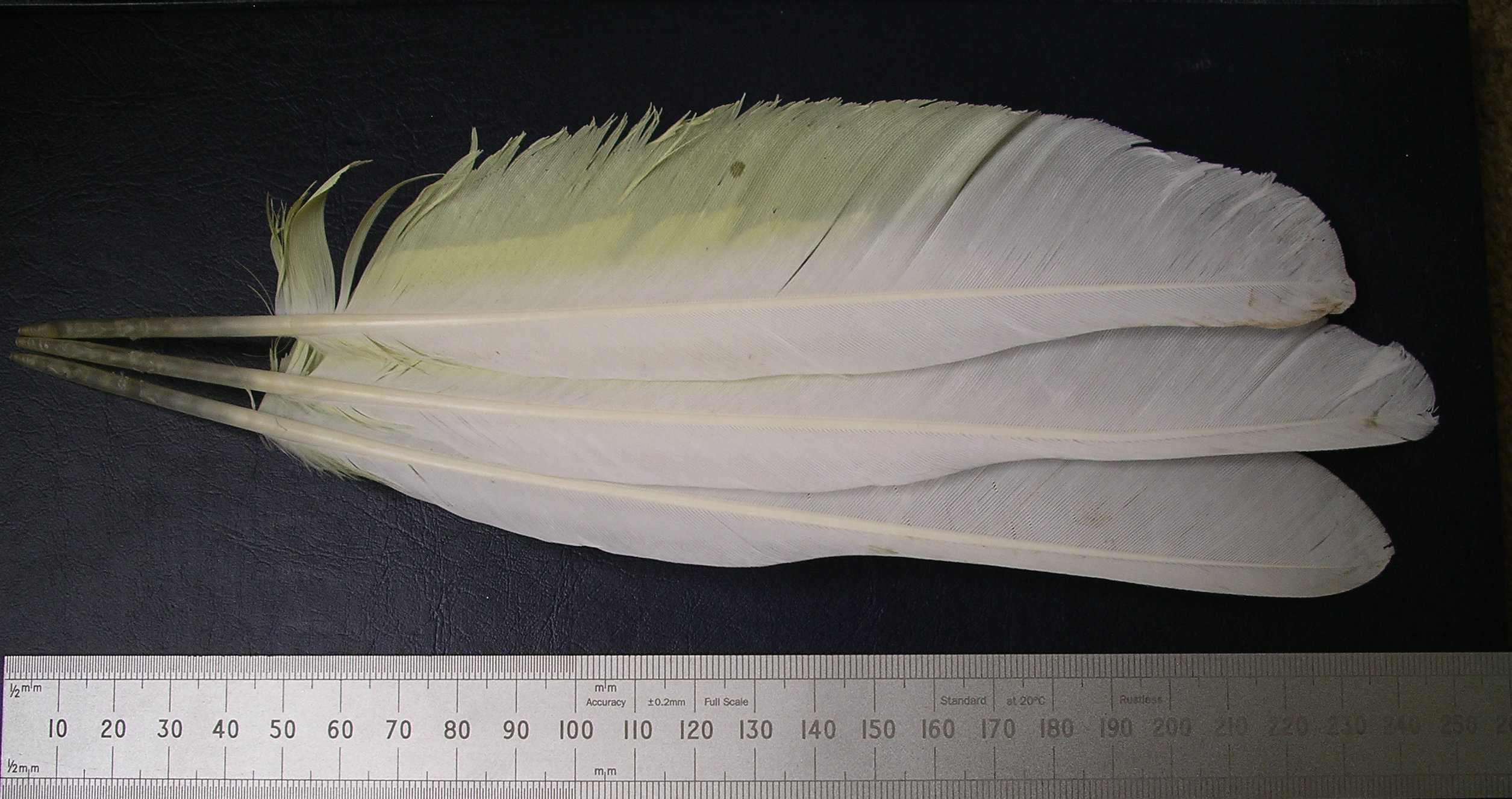 Photo taken by me to show the colouration of the large wing feathers of an Umbrella Cockatoo (Cacatua alba). The feathers were naturally shed from the parrot - it did not suffer any pain. The feathers were found at the bottom of its cage.